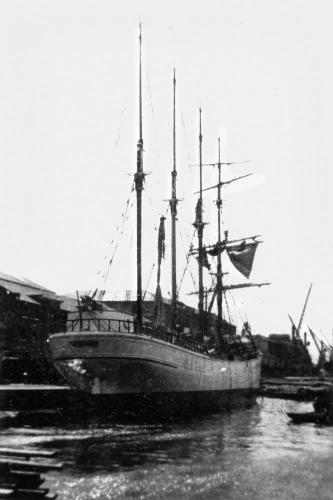 Tormilind (ship) Built 1922. (Description supplied with photograph.).